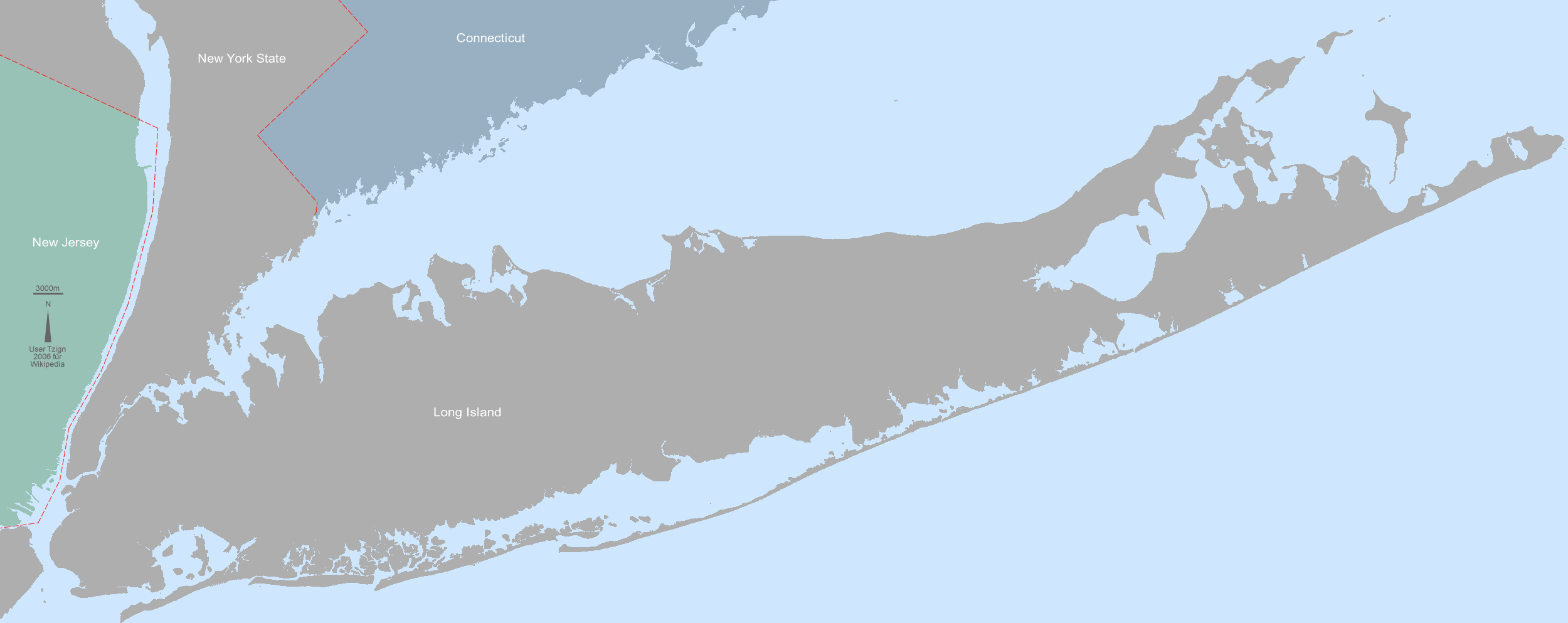 Map of Long Island, NY